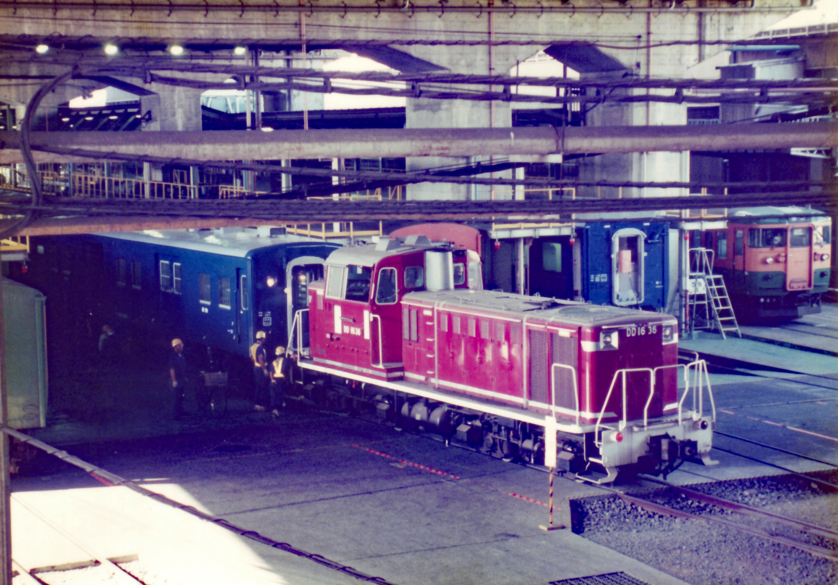 Class DD16 diesel locomotive works shunter DD16 36 in "Hokutosei" style livery inside Omiya Works in Saitama Prefecture, Japan